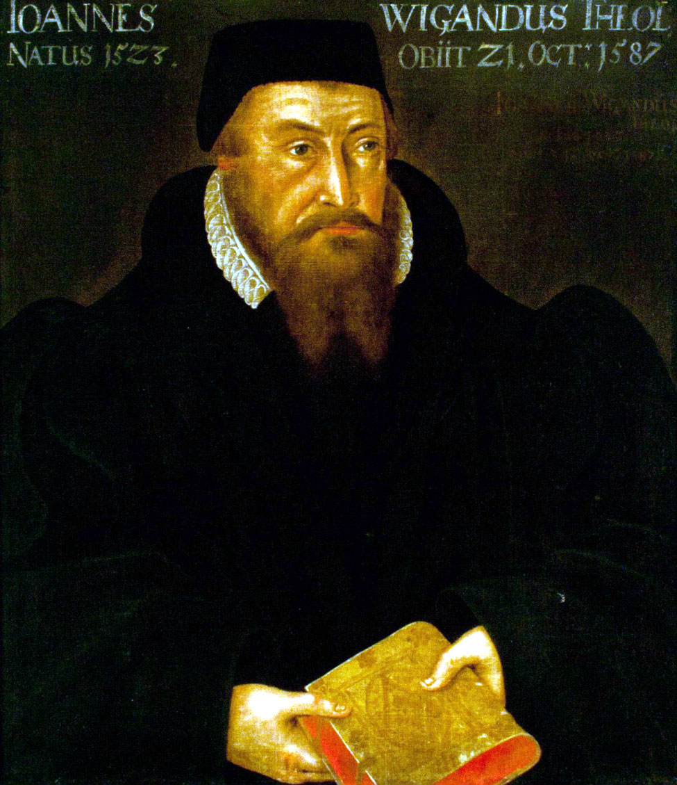 Johannes Wigand (1523-1587) German Protestant theologian